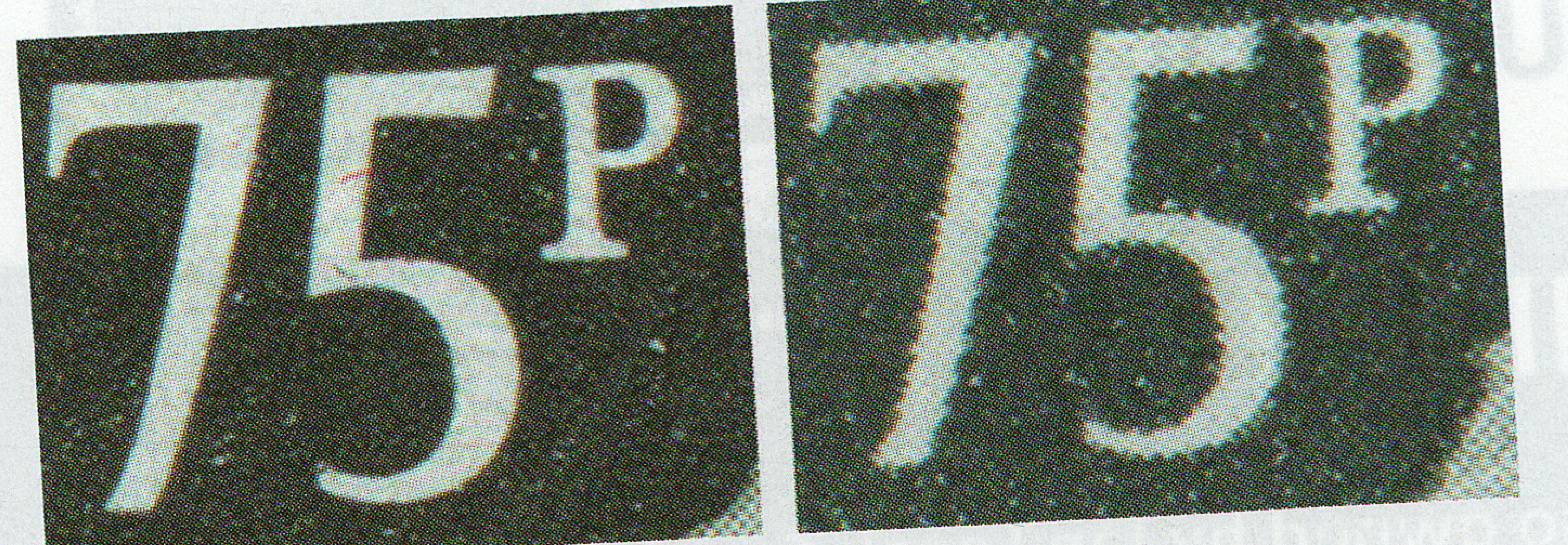 comparison between two printing methods on 75p stamp of same Machin series design as issued in 1967 just a different denomination